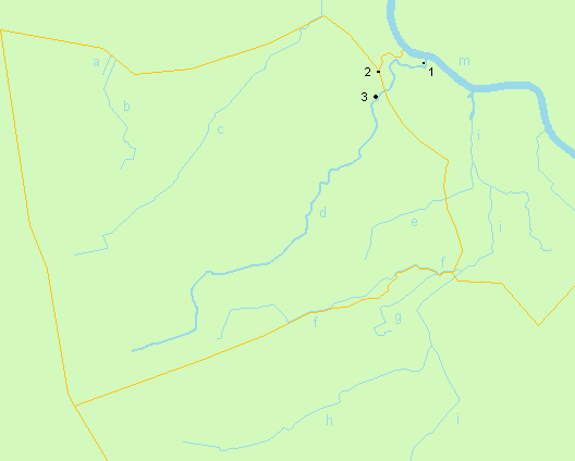 Oostrumse Beek, small river in the Netherlands (Limburg)